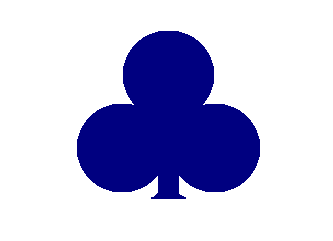 Union Army, II Corps - Army of the Potomac, 3rd Division Badge